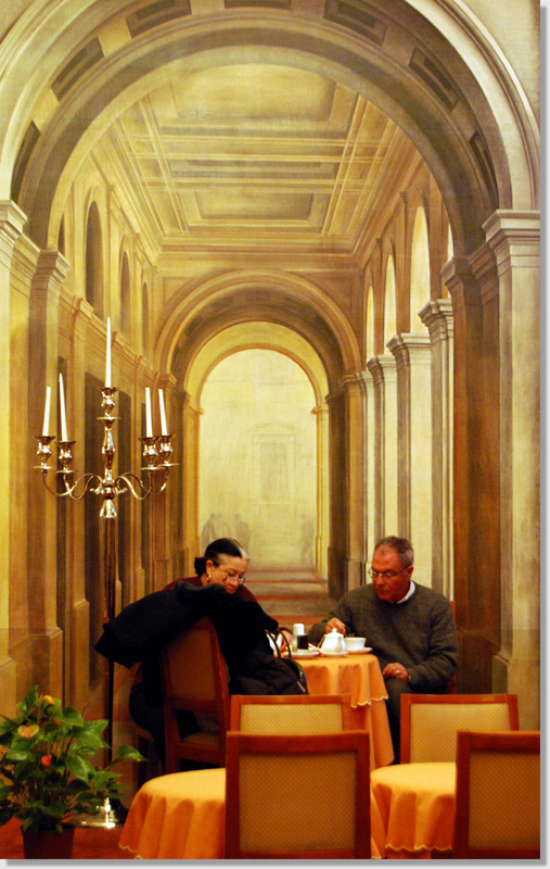 Caffé Paszkowsky in Florence - Italy.